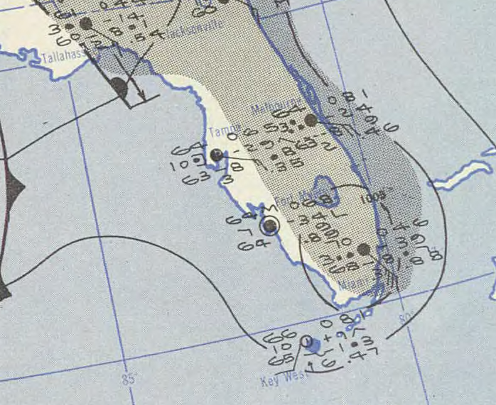 Pressure map showing the Groundhog Day Tropical Storm of 1952 as a 1005mb low pressure system over Florida.